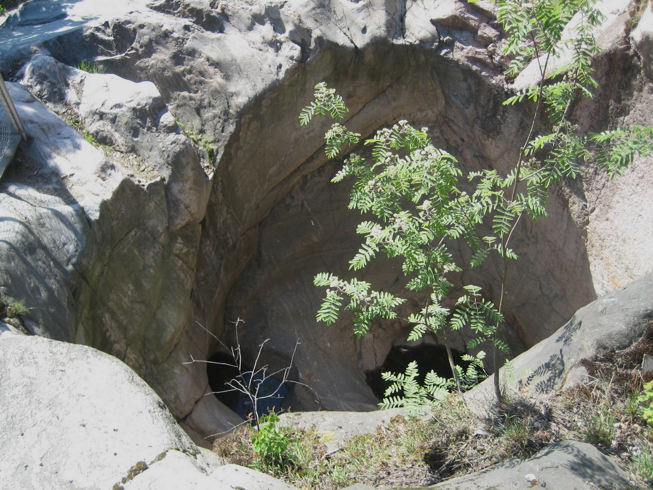 A giants kettle (a pothole) in Helsinki, Finland. This giants kettle is the bigger of the two located in the middle of Pihlajamäki residential area. The diameter of the hole is 6.9 metres (22.6 ft) and the depth is 8.45 metres (27.72 ft). The estimated age of the pothole is between 50,000 and 100,000 years. It is grinded before the last ice age, since it was found in geological formations under the ones created by the last ice age. It is estimated it took less than 100 years to grind this pothole in a current covered by 500–1,000 metres (1,600–3,300 ft) of ice. The age of the bedrock is approx. 1.9 billions (1,900,000,000) years.